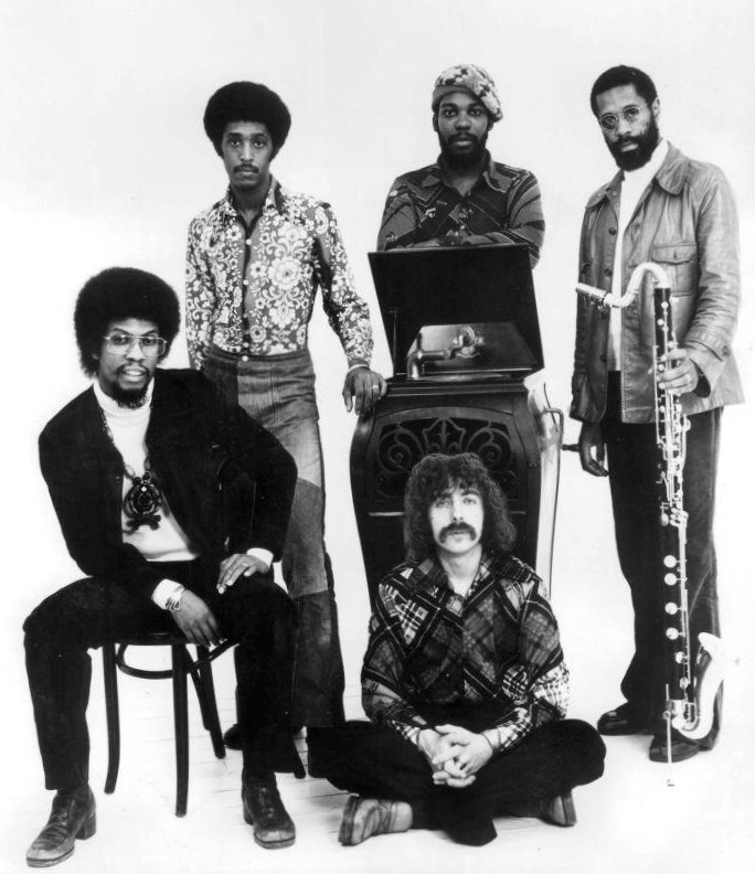 Photo of Herbie Hancock and his band, The Headhunters.